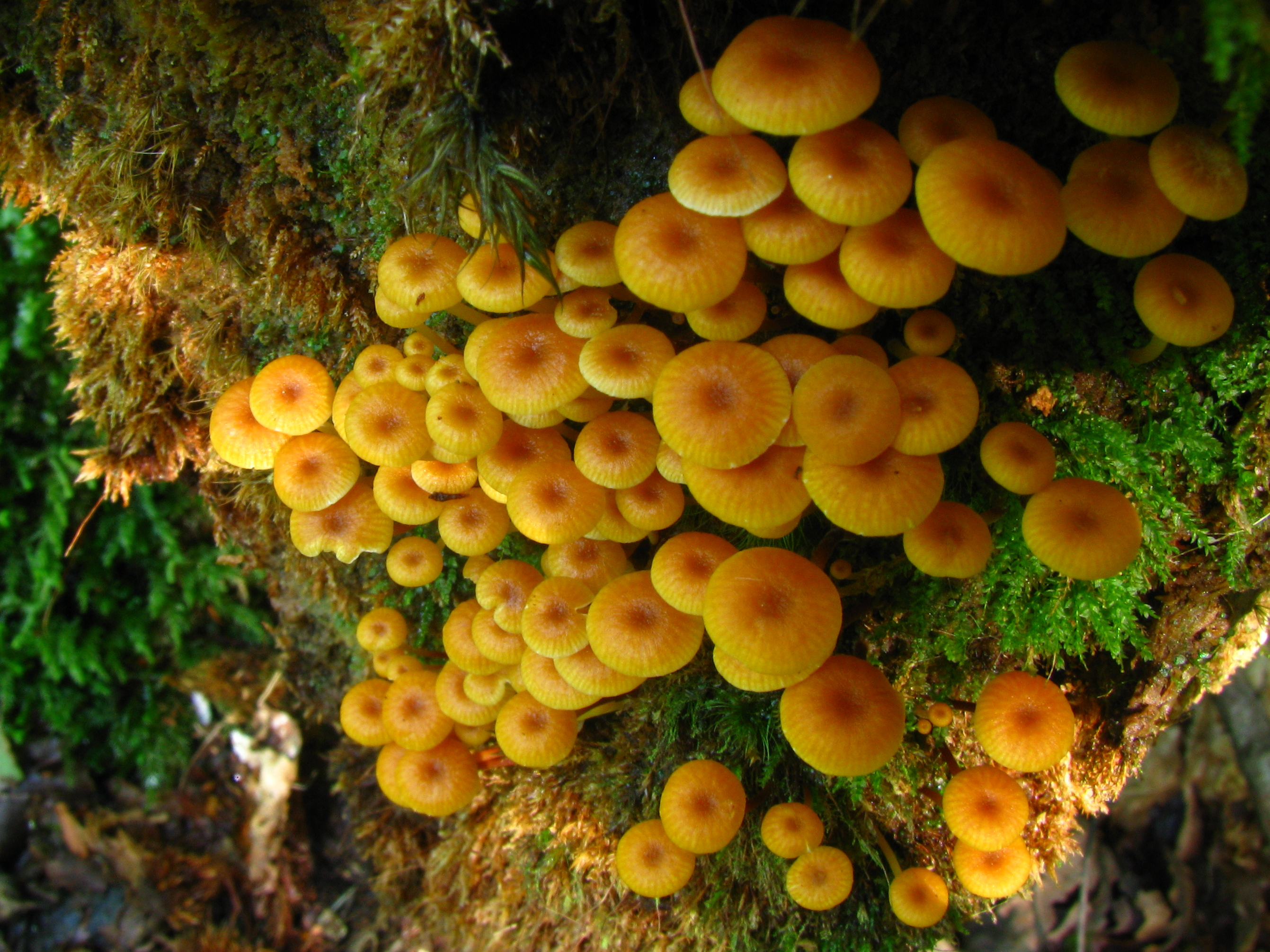 Xeromphalina campanella (Batsch) Maire Location: Cranberry Wilderness, Monongahela National Forest, West Virginia, USA For more information about this, see the observation page at Mushroom Observer.